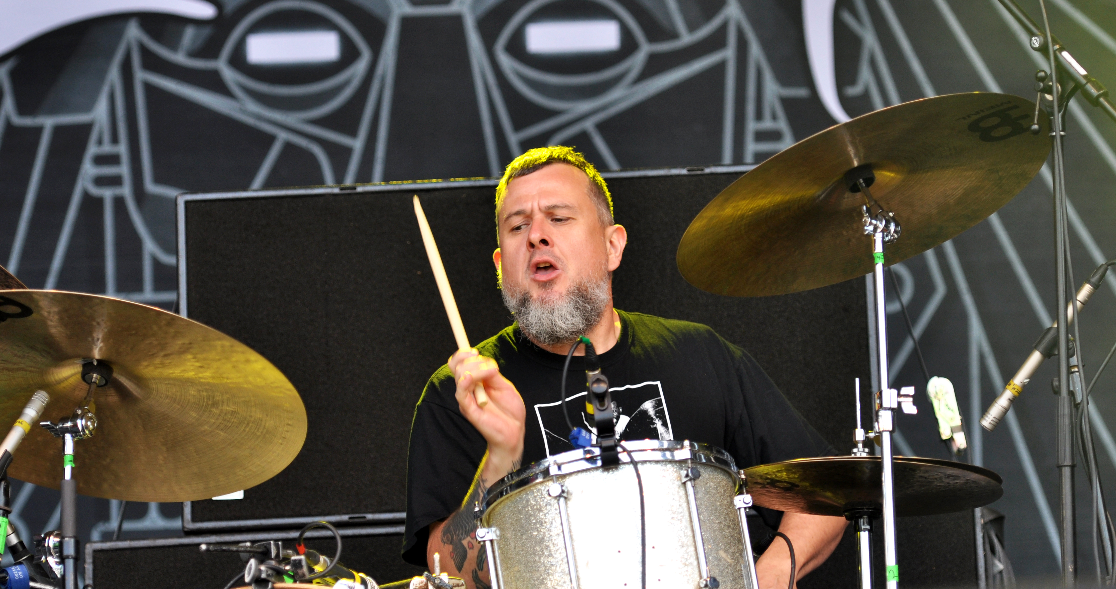 US stoner rock band Clutch at Rock am Ring 2013